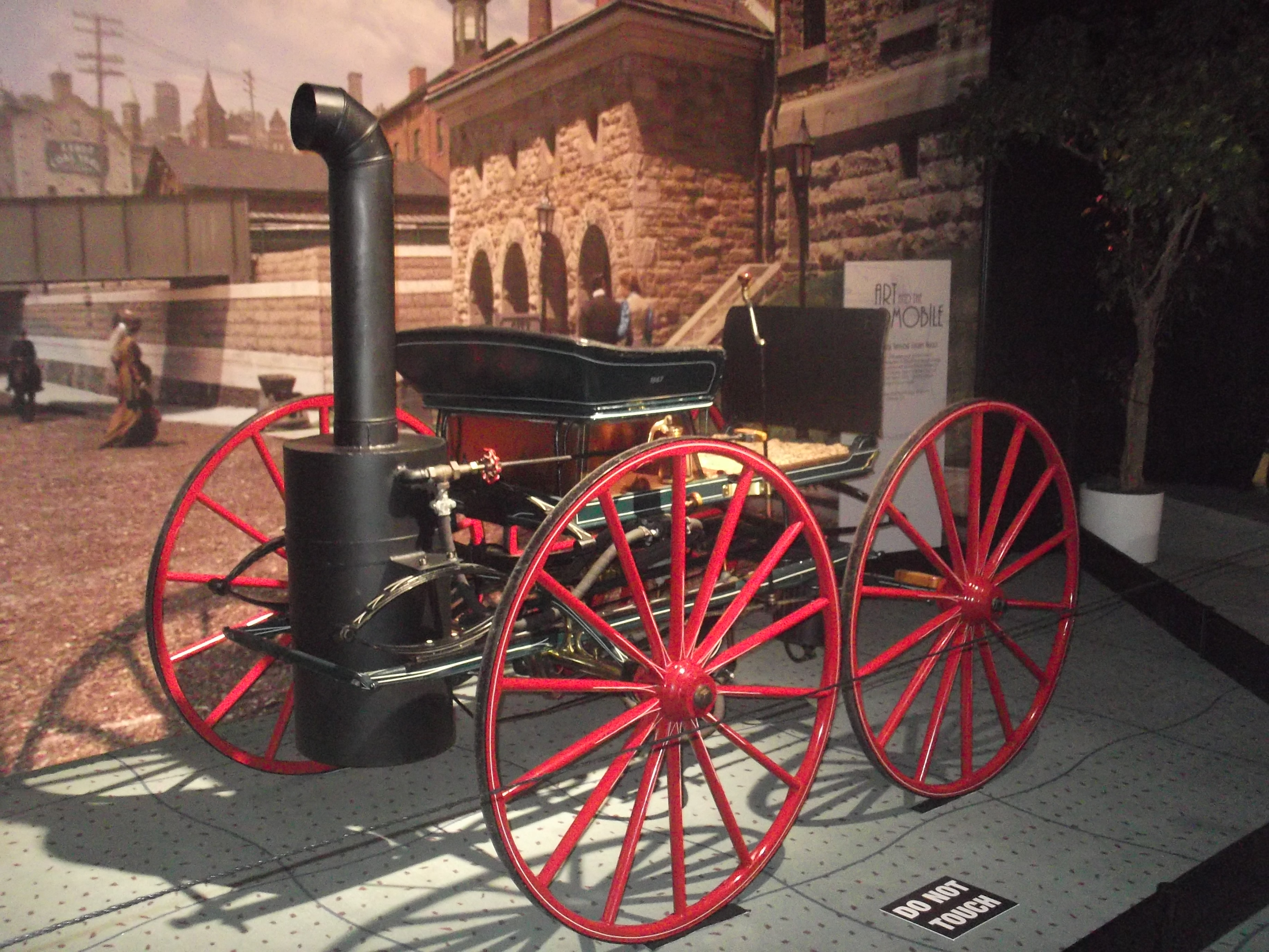 The Henry Seth Taylor Steam Buggy, seen at the 2015 Canadian International Auto Show in Toronto.